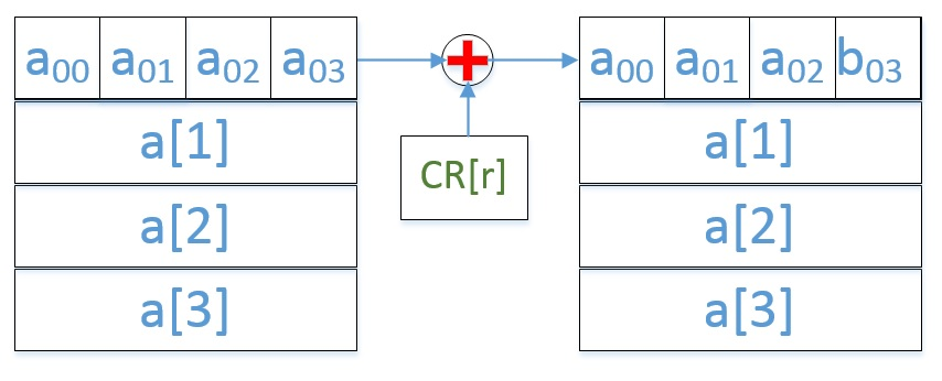 apposition of round constants in NOEKEON cipher